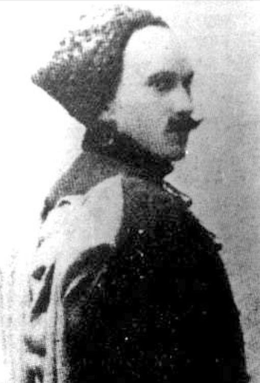 Yuri Hlushko-Mova, leader of Green Ukraine (Zelenyi Klyn)